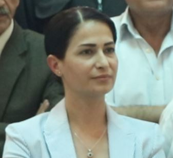 Hevrin Khalaf during a meeting of several Northeastern Syrian parties and associations in 2019.